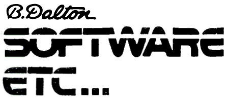 B. Dalton Software Etc. logo. Public domain as a text logo.